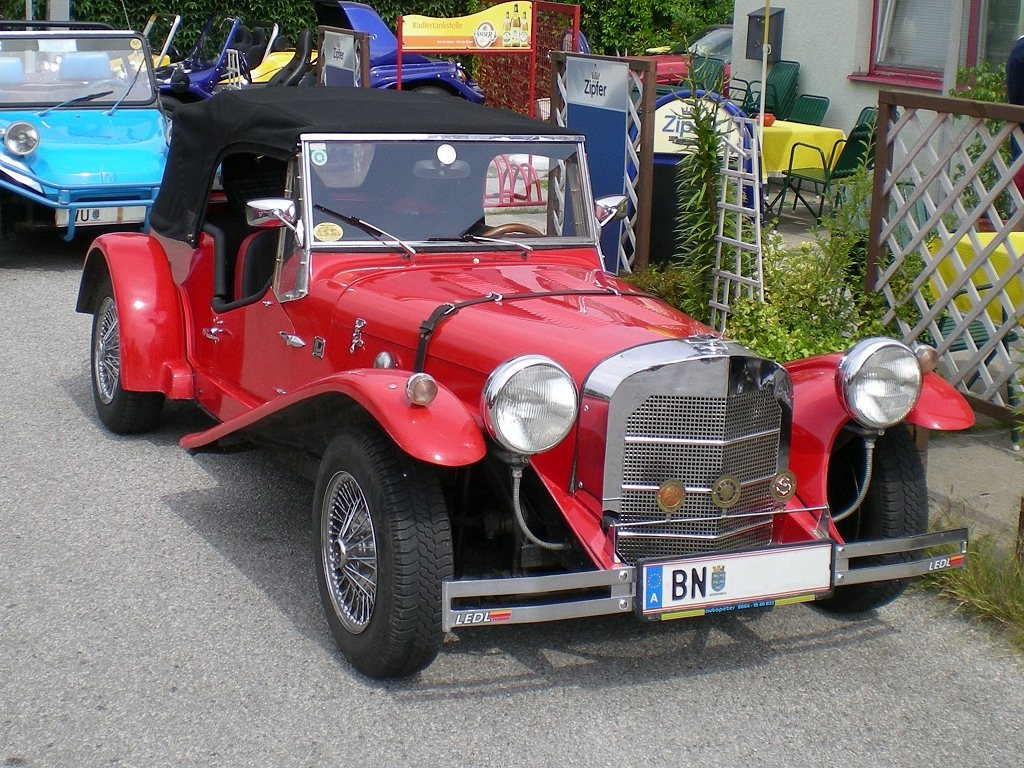 Ledl Mercedes SS29 Replica, taken at the 35th anniversary celebration of the Ledl Company in Tattendorf, Austria